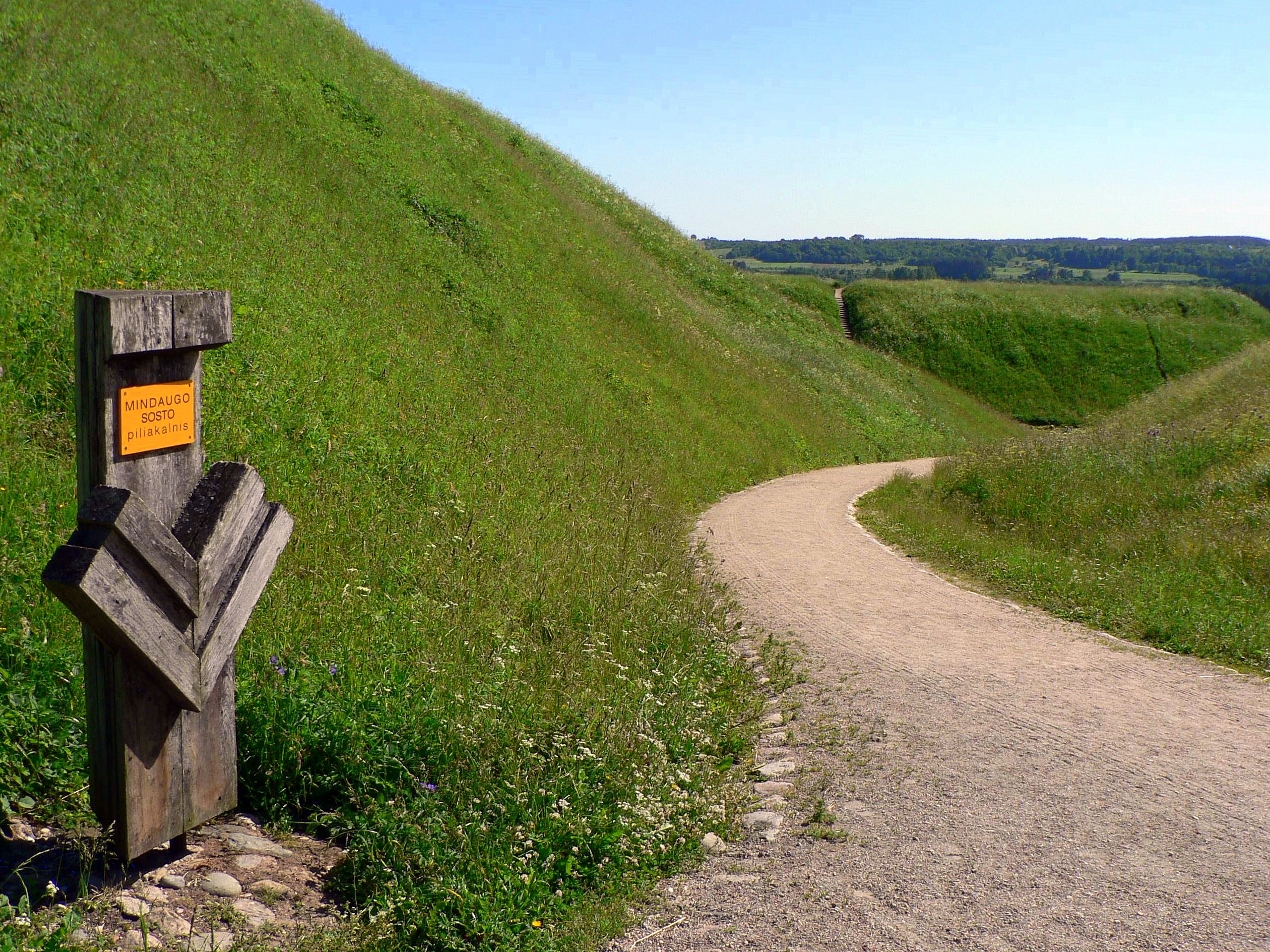 Old hillfort mounds near Kernave, Lithuania.